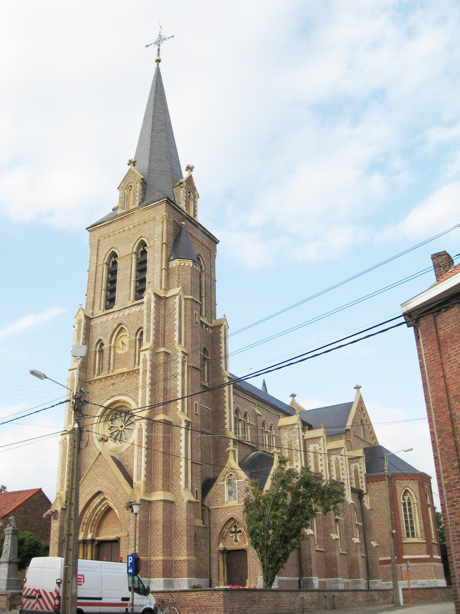 Church of Saint Peter in Lauw, Tongeren, Limburg, Belgium